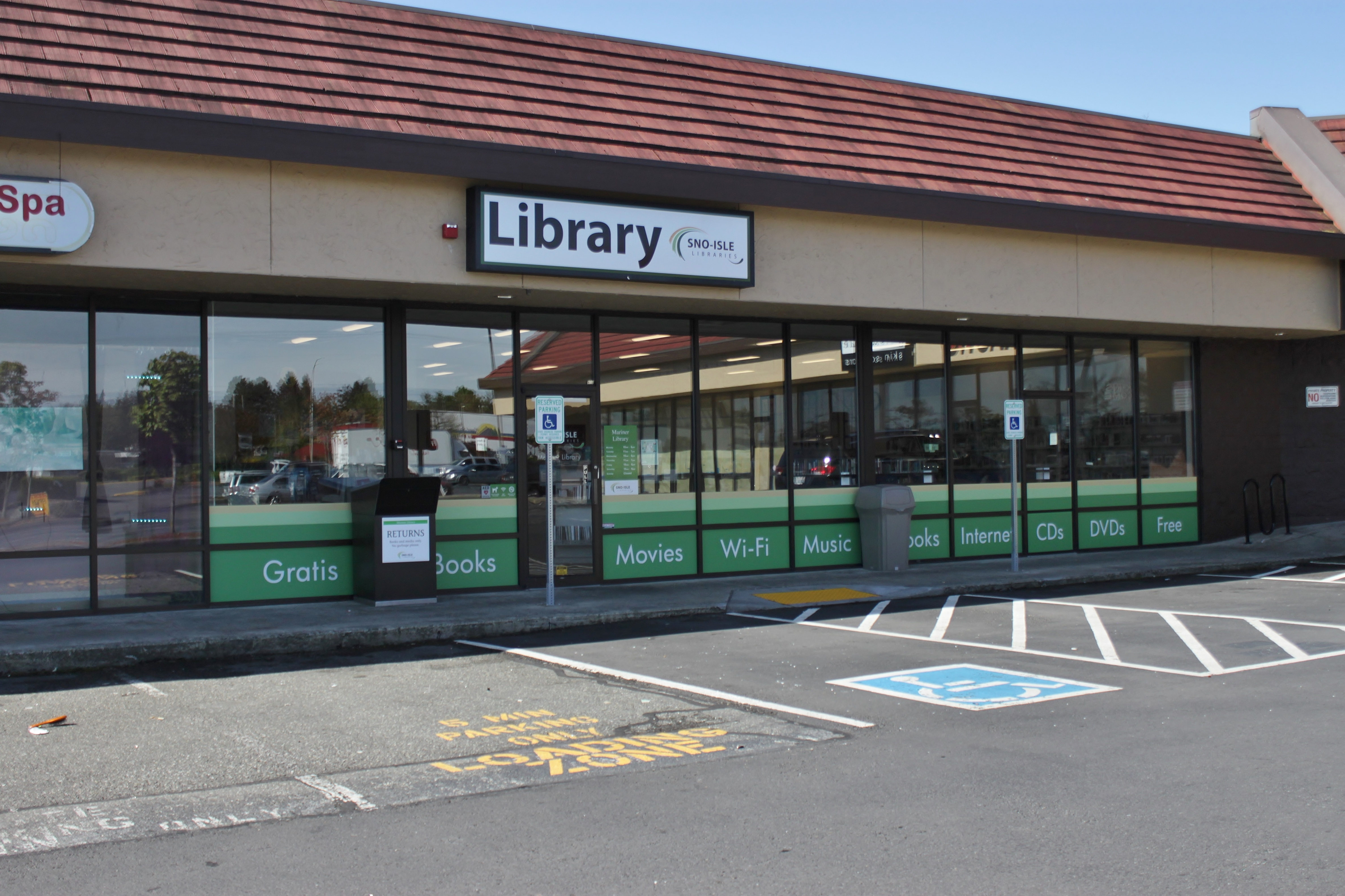 The temporary Mariner branch of the Sno-Isle Libraries system, a public library district serving northwestern Washington. The library is in a leased retail space to gauge interest before construction of a permanent branch can begin.